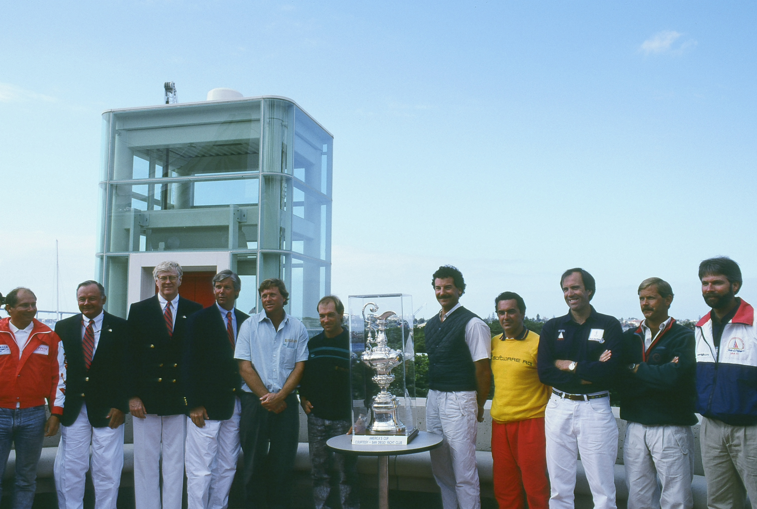 Skippers from the U.S. America’s Cup defender team and international challengers met the press and the public at the waterfront San Diego Convention Center to kick-off the 1992 competition.